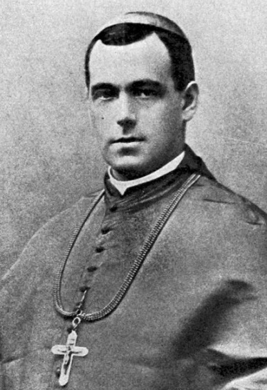 Bishop Miklós Széchenyi